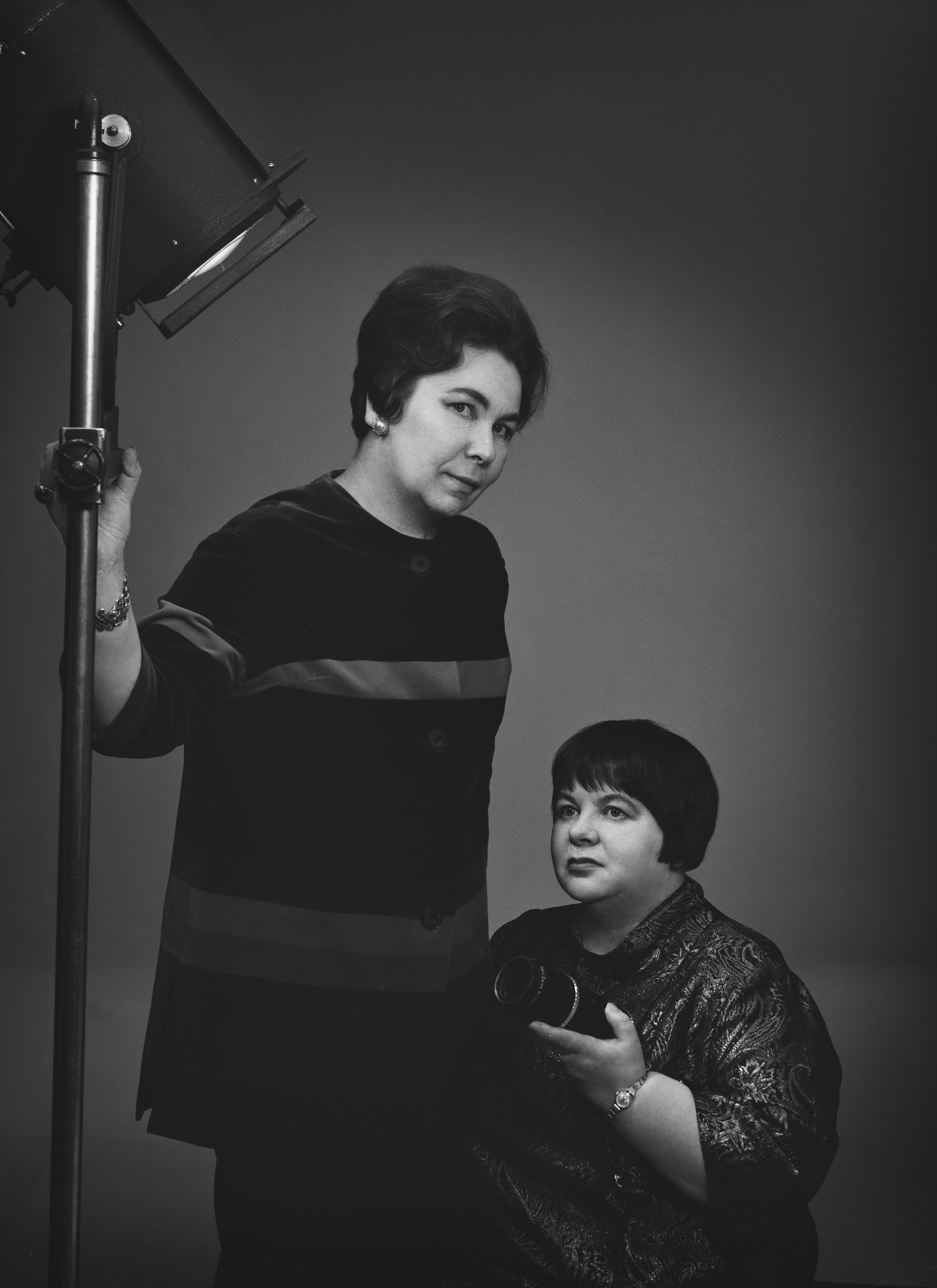 Photograph of the Finnish photographers Margit Ekman (1919–2011) and Eila Marjala.